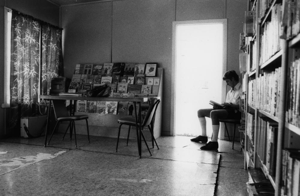 Young man reading in the McKinlay Library Queensland